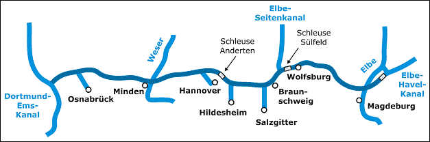 Course of the Mittellandkanal, Germany.